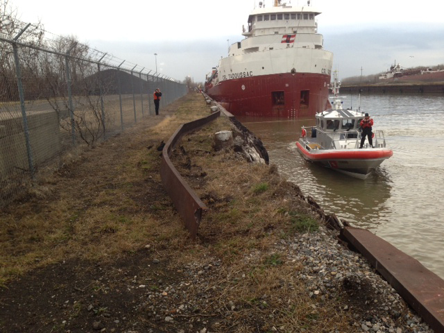 A Coast Guard crew aboard a 45-foot Response Boat-Small from Station Toledo, Ohio, inspects a damaged pier along the Maumee River near Toledo after a ship allided with the pier, Dec. 11, 2012. Coast Guard responders and investigators responded to the scene where the CSL Tadoussac (background), a 730-foot Canadian-flagged bulk carrier, allided with the pier, causing a puncture in the starboard stern bunker tank. U.S. Coast Guard photo, courtesy Marine Safety Unit Toledo